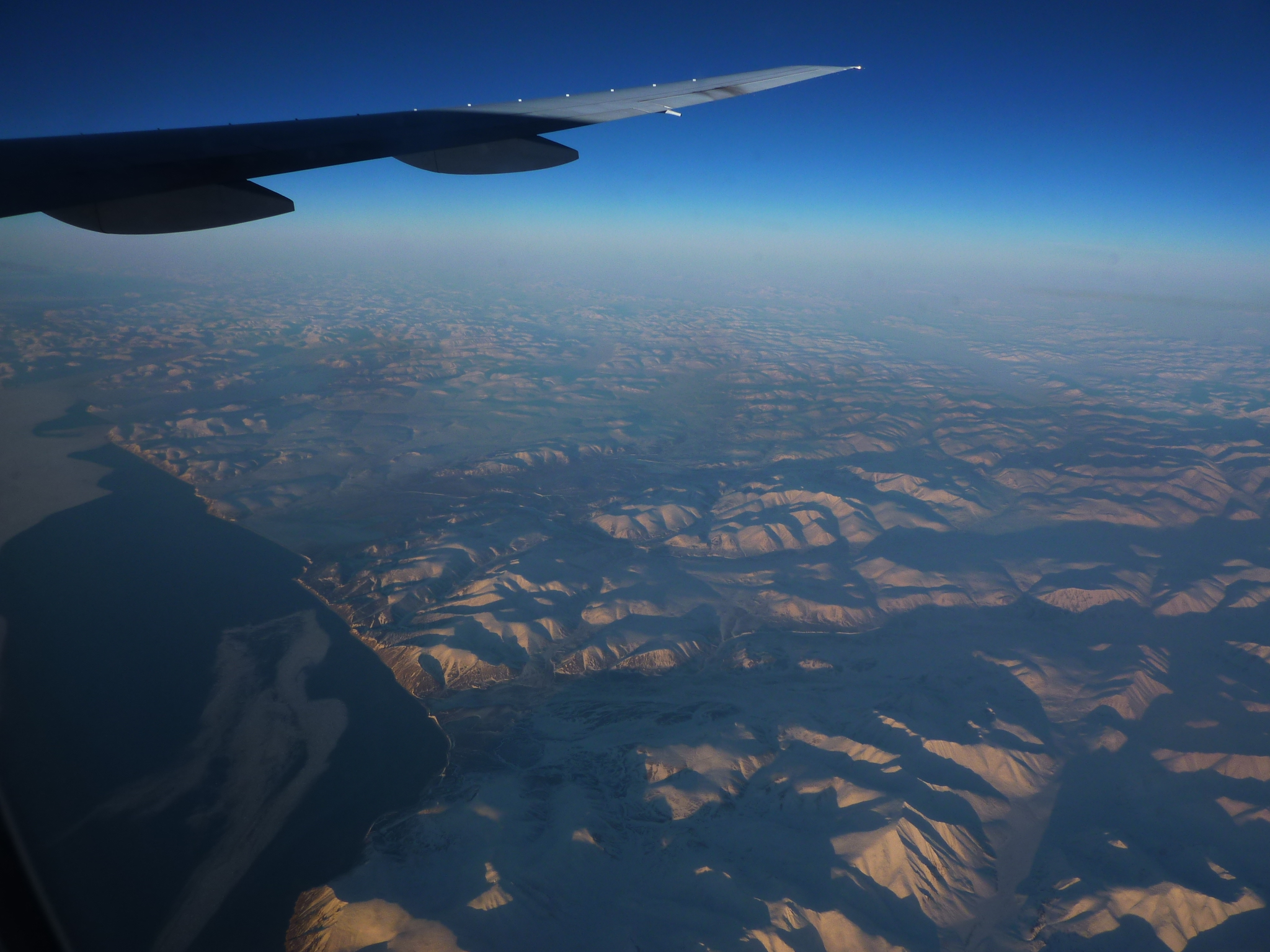 Coast of Chukotka Peninsula NW of Sireniki. Looking north or north west. The part of Bering Sea seen in the photo is the Gulf of Anadyr. Photo taken from an AA aircraft on a non-stop ORD-PVG flight